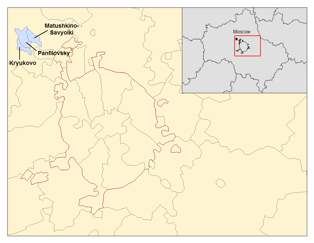 Map of the districts of the City of Zelenograd (2002-2010) in Russia. Created by Rarelibra 20:33, 3 April 2007 (UTC) for public domain use, using MapInfo Professional v8.5 and various mapping resources.